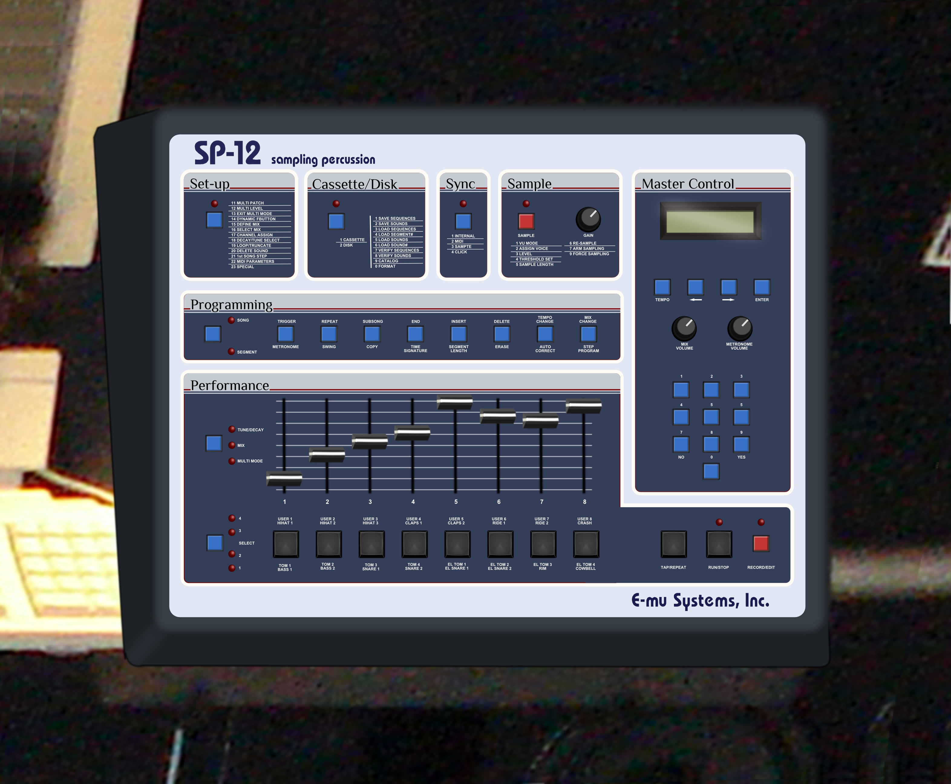 E-mu 7021 SP-12 Sampling Percussion Shawn Rudiman's Studio, Pittsburgh, PA